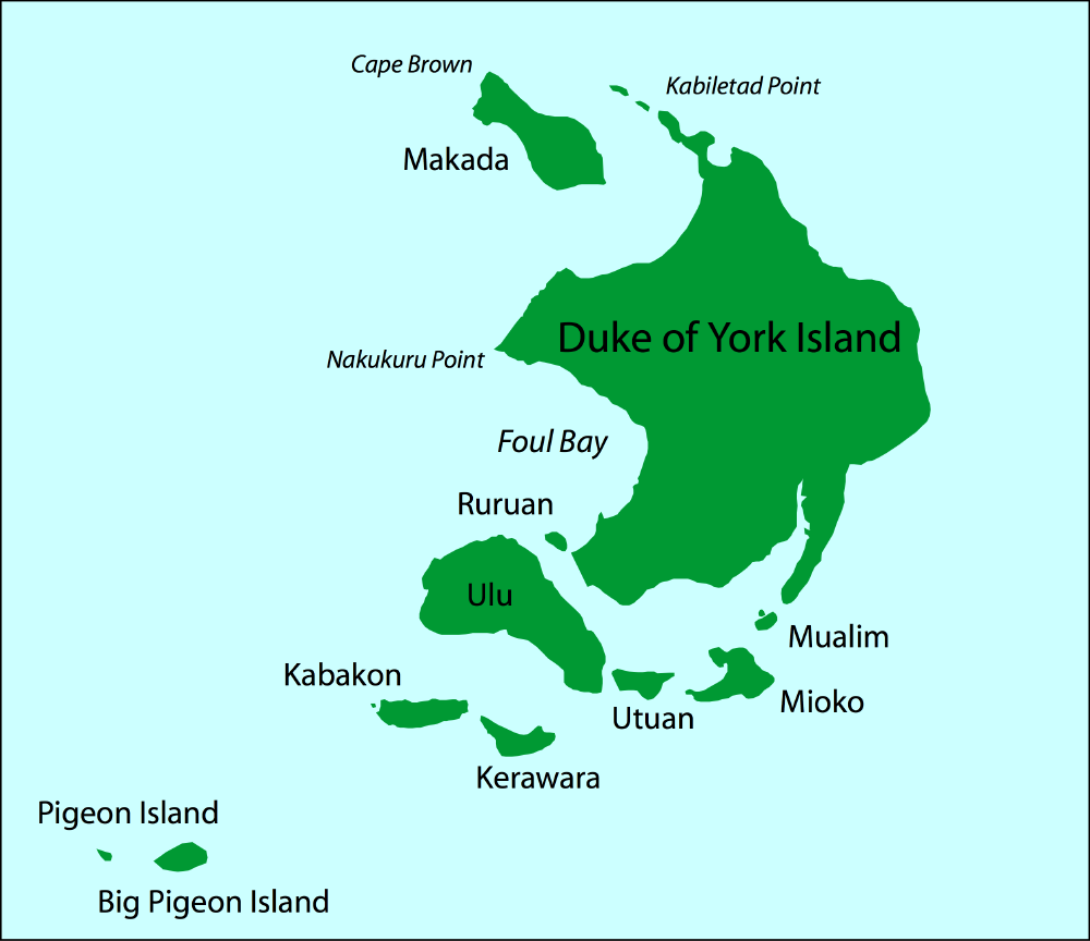 Locator map for Duke of York Islands, Papua New Guinea